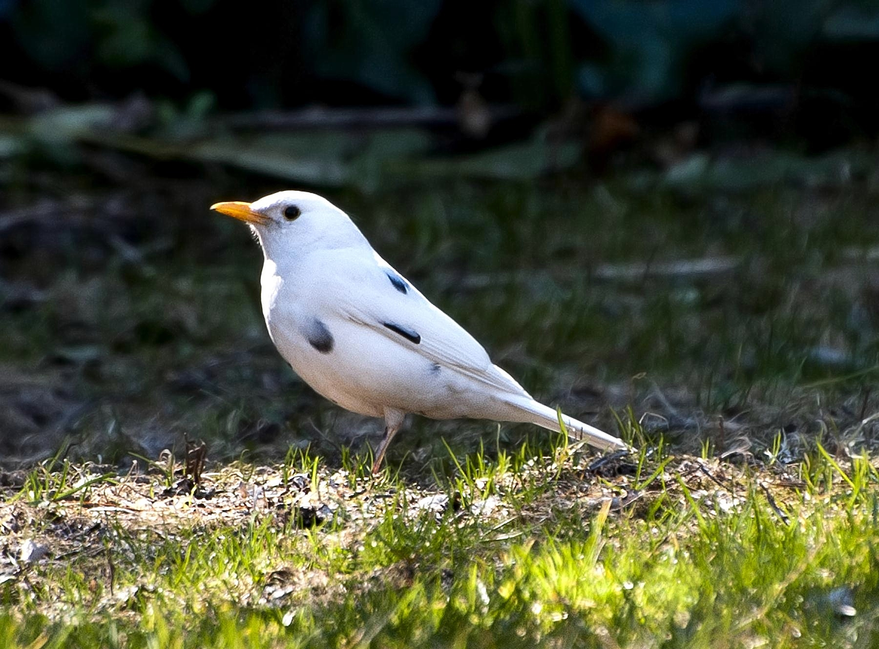 Common Blackbird Turdus merula with leucistic plumage; photograph taken in Trento, Italy